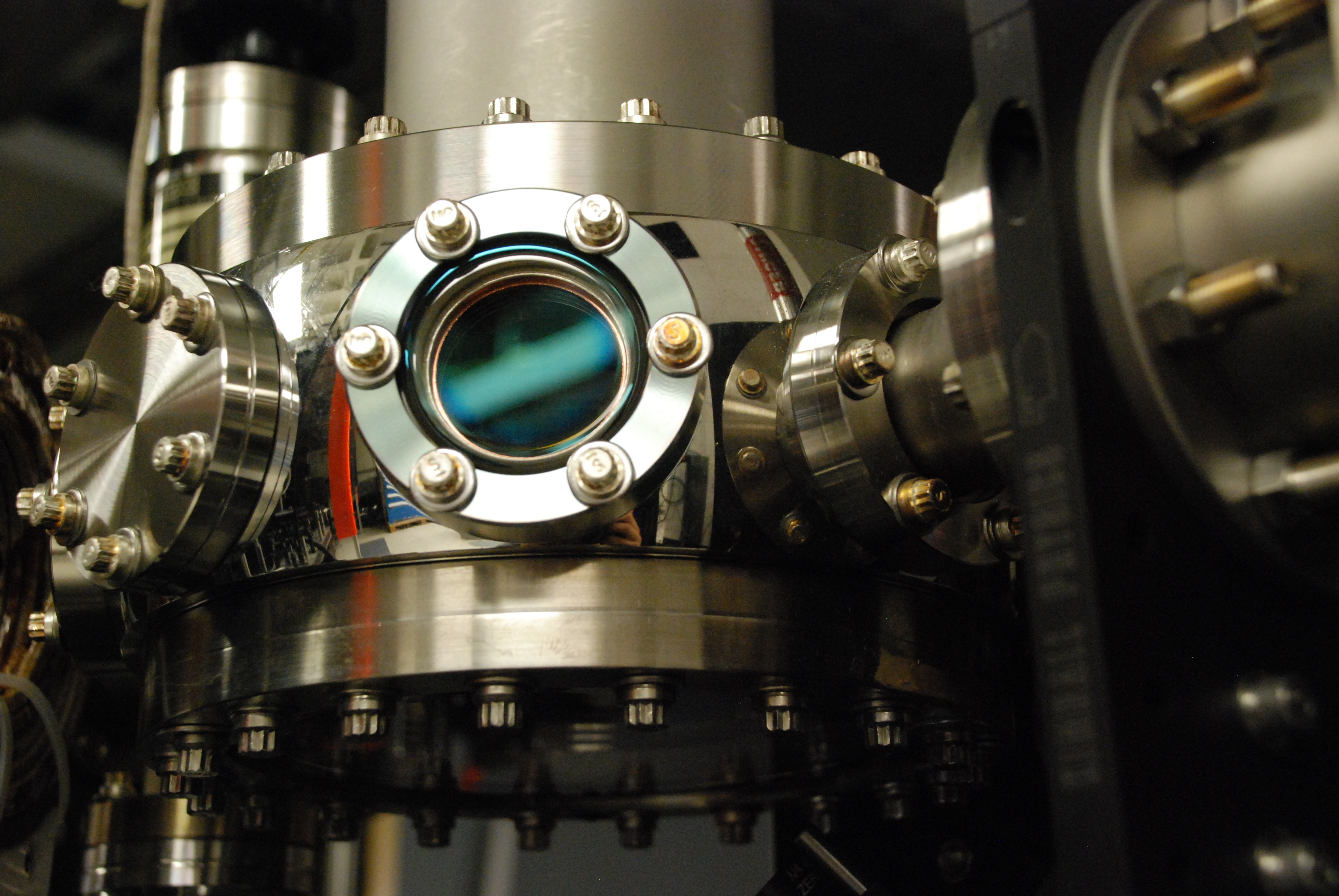 Vacuum chamber for cold atoms experiments.